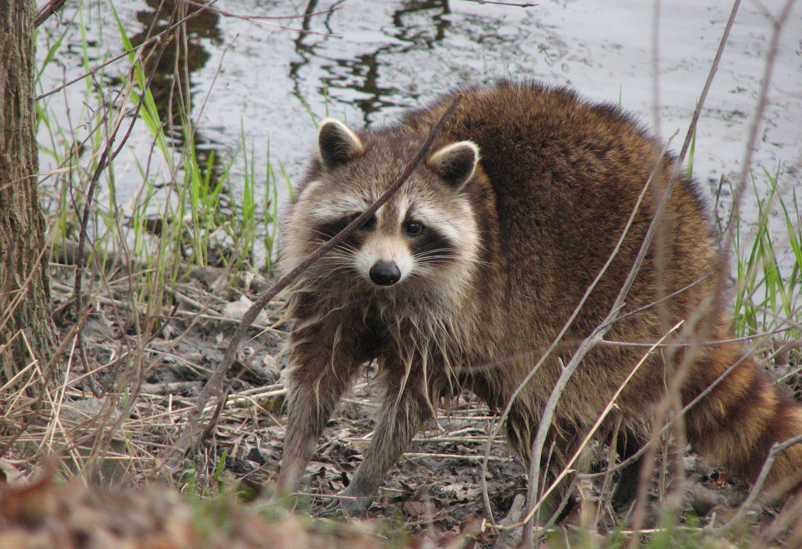 Raccoon (Procyon lotor), female, Ottawa, Ontario